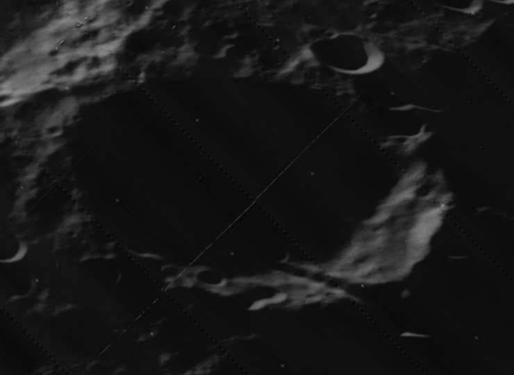 Oblique view of Rynin, on the far side of the moon, facing west.